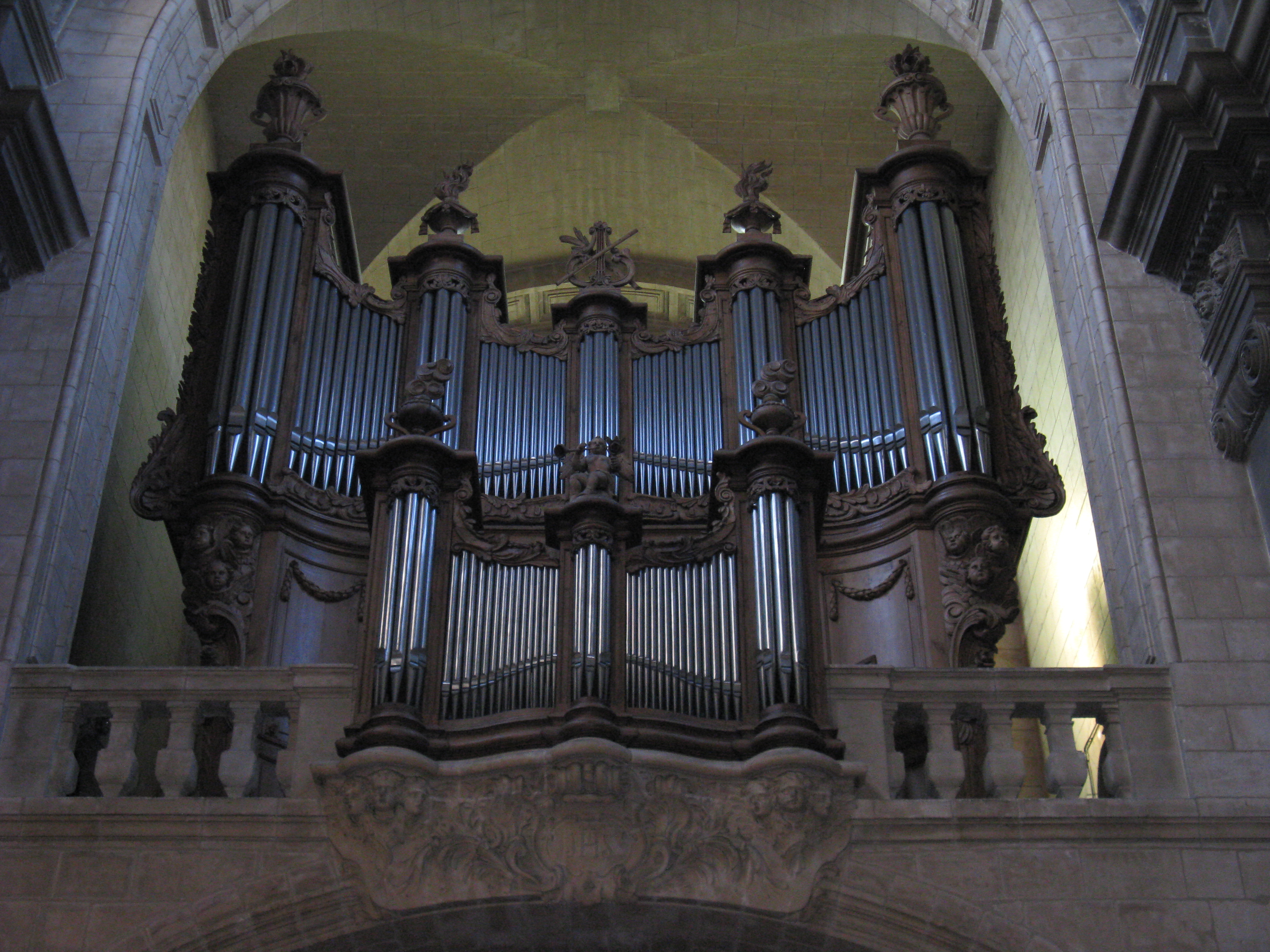 Cathedral of Dax, organ